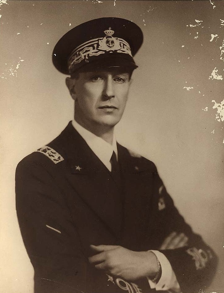 Prince Aimone of Savoy, King of Croatia, 4th Duke of Aosta (b.1900-d.1948)